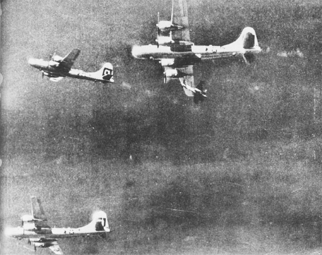 Jpanese Fighter aircraft making a pass under a B-29